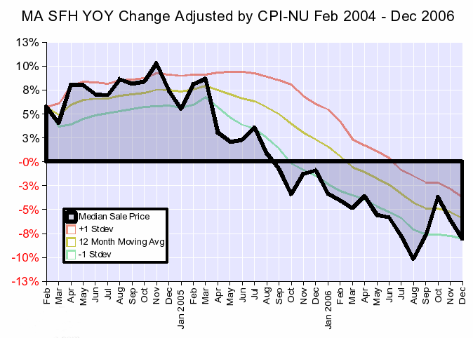 Massachusetts Single Family Homes Year-Over-Year Inflation Adjusted Prices, 2004–2006, from publicly available U.S. government and Massachusetts Association of Realtors data given in a blog entry at . This plot is released with a Creative Commons 2.5 Attribution License: You can also remove the signatures from those graphs and then use them under the Create Commons Attribution 2.5 License with a link stating that the original version is available at